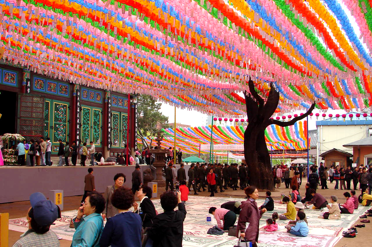 Jogyesa is the headquarters of the Jogye Order of Korean Buddhism playing the defining role of Seon Buddhism in South Korea. The temple was first established in 1395, at the dawn of the Joseon Dynasty. Natural monument 9, an ancient white pine tree, is located within the temple grounds.